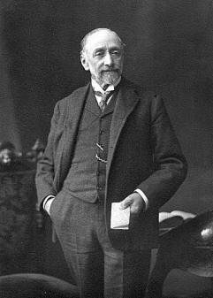 Gustav Wilhelm Wolff, co-founder of Harland and Wolff shipyards